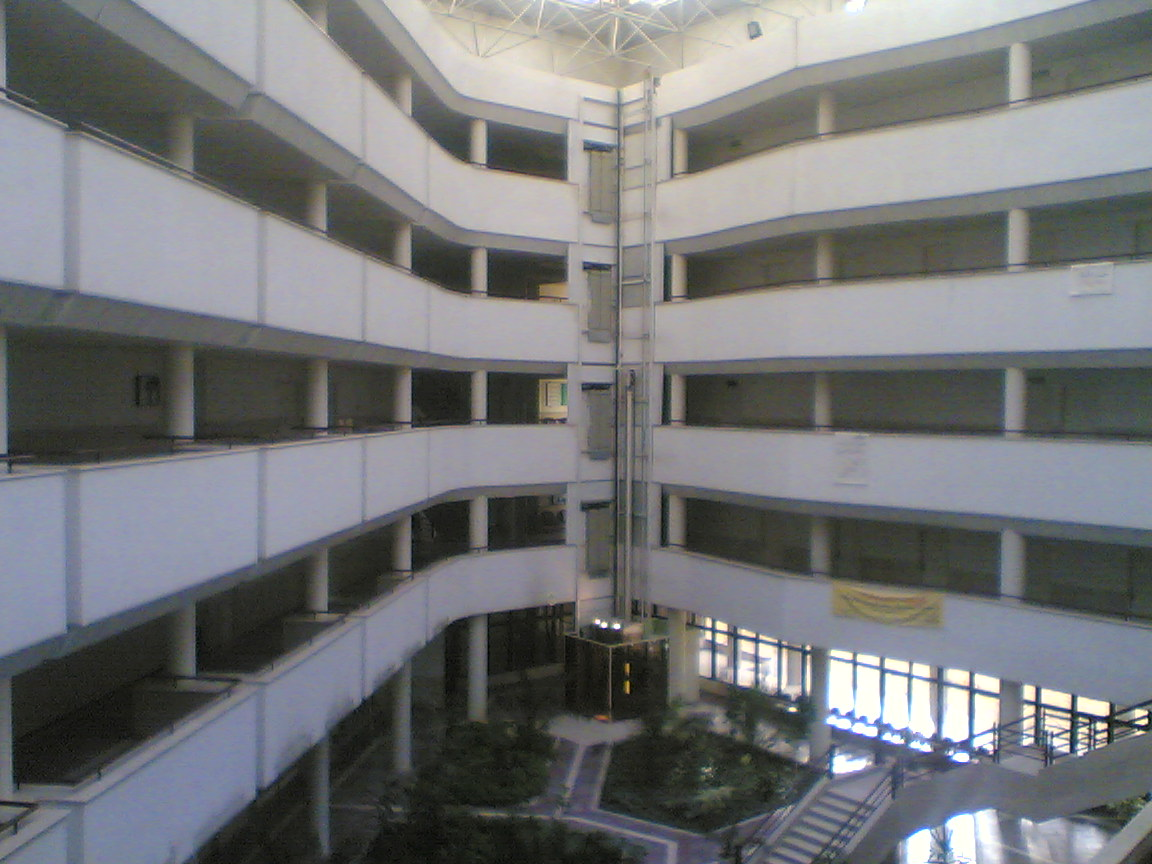 Bu Ali Sina University